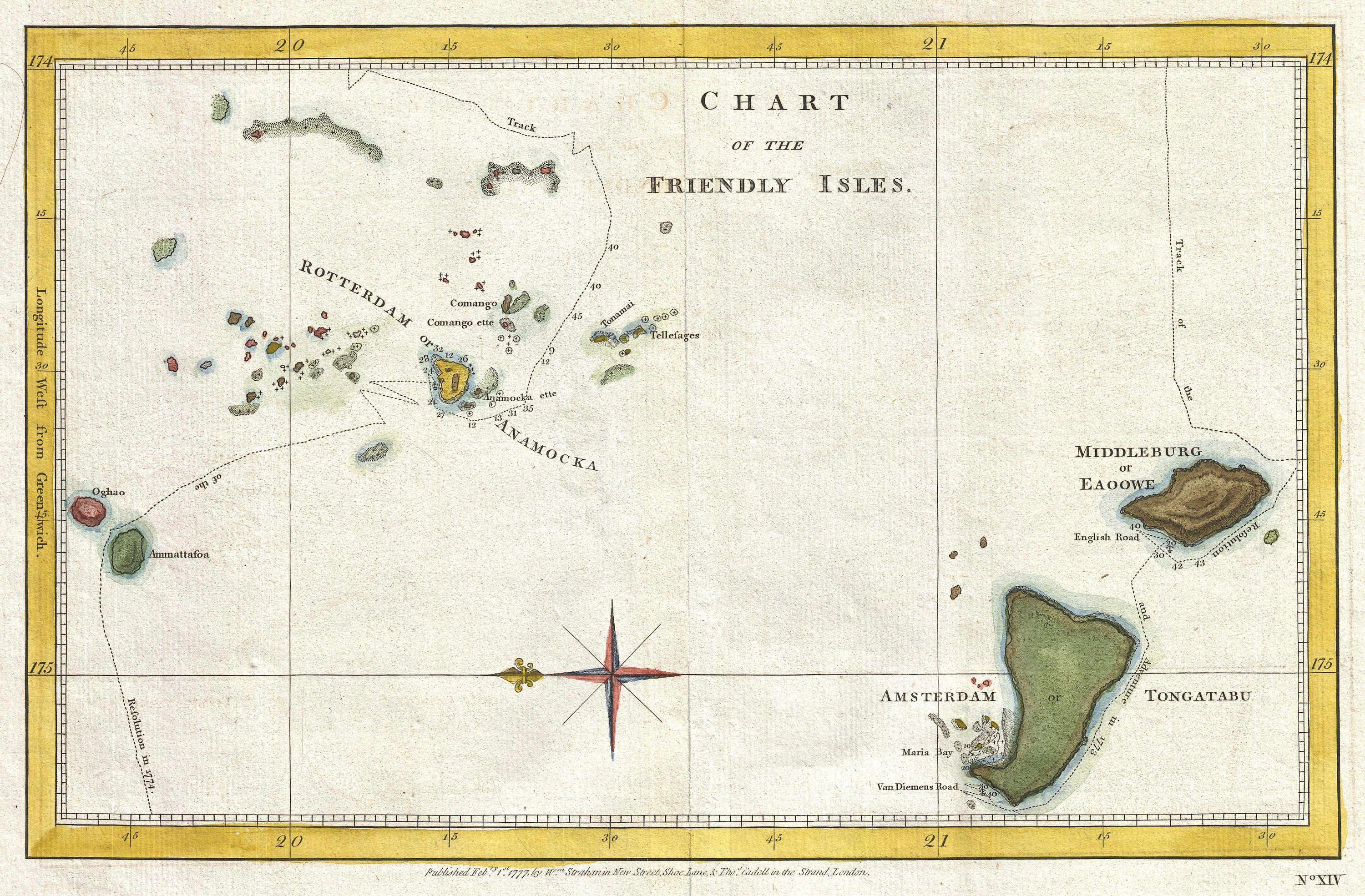 A highly uncommon chart of the Friendly Islands, or Tonga, from 1777. Oriented to the East, this map depicts the Tongatapu Island Group and the Ha'Apai Group that make up the Kingdom of Tonga. Shows the routes of the Resolution and the Adventure on Captain Cook's second voyage, 1772-1774. Cook's second voyage was intended to discover the apocryphal Terra Australis a theoretical southern continent that is not to be confused with Australia or Antarctica. On this voyage Cook crossed the Antarctic Circle and nearly, but not quite, spotted the Antarctic mainland. He landed at the Friendly Islands and laid on this map on the return portion of his voyage in 1773 and 1774. Published in 1777 by Thomas Cadell of London.